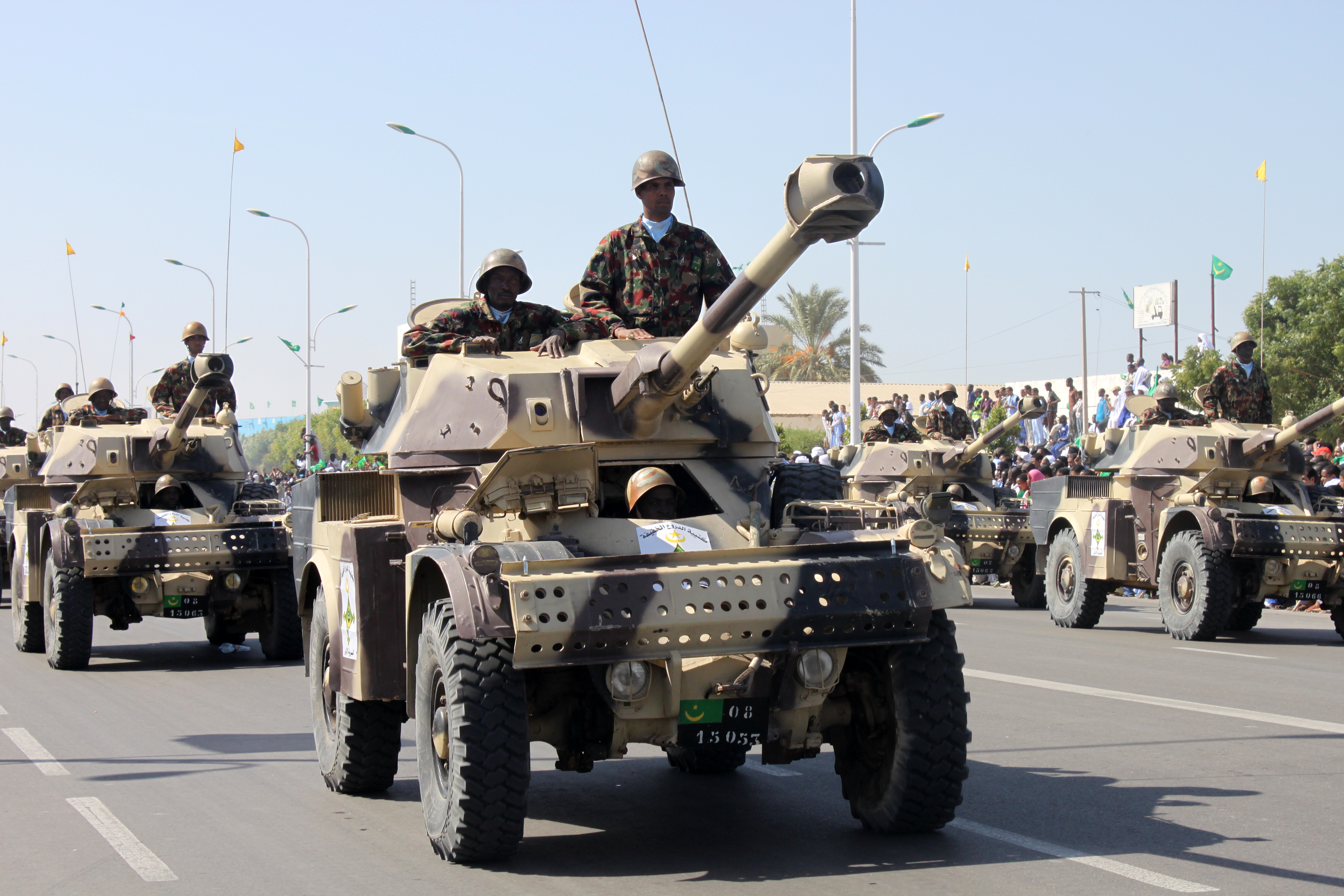 AML 90 of mauritanian troops, seen here at a military parade earlier this year, are boosting their presence along the Mali border.